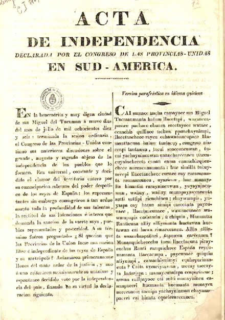 Act of Independence of the United Provinces of South America (today's Argentina) in Spanish and Quechua